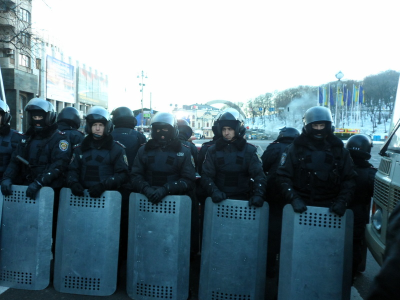 Militia guard the entrance to the empty 'AntiMaidan' demonstration site in Evropeiska Square, Kiev, 08.00 14.12.2013. This 'demonstration' is financed by the Government. Unlike the Euromaidan demonstration, there is no free access to the site.